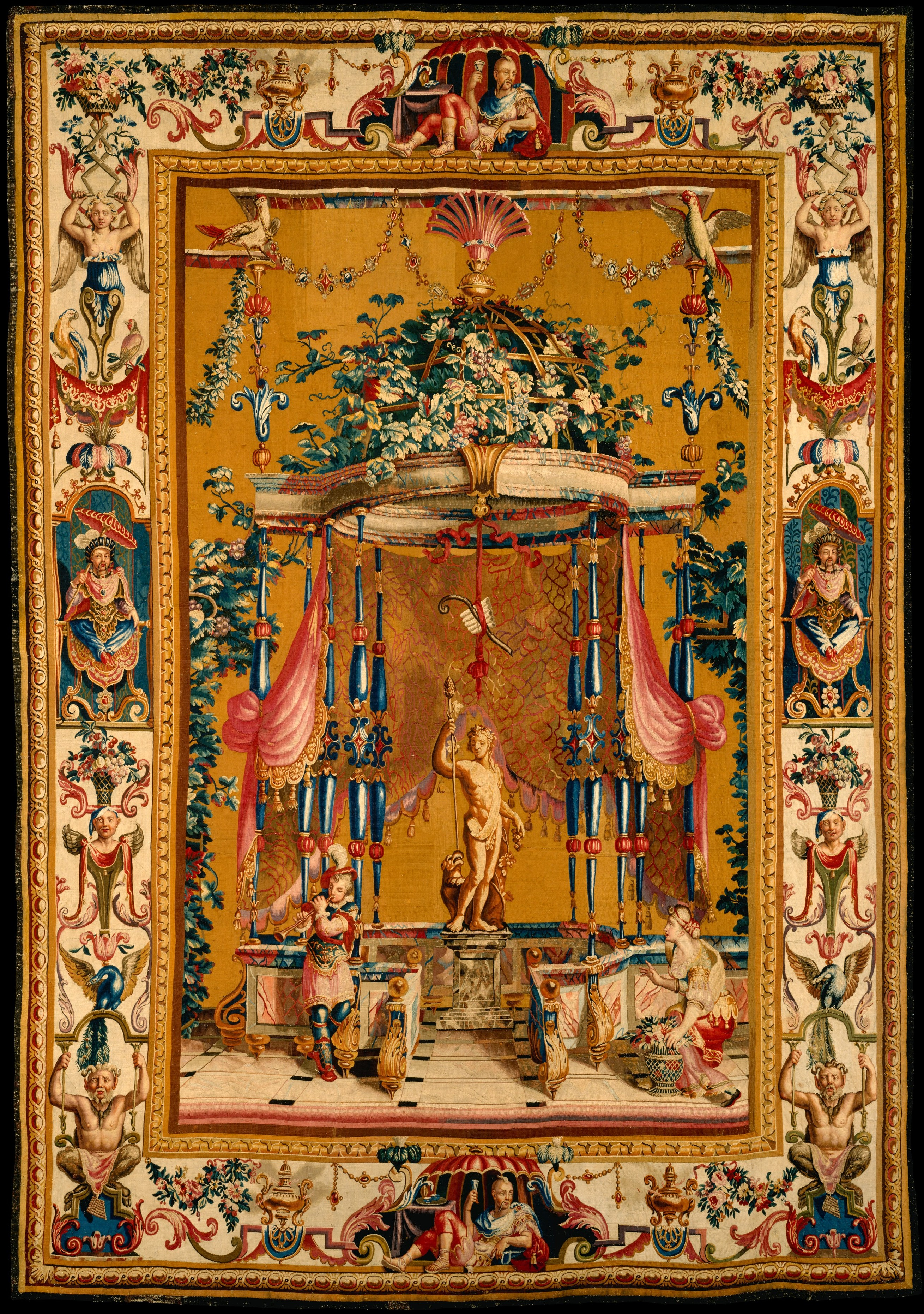 French, Beauvais; Tapestry; Textiles-Tapestries